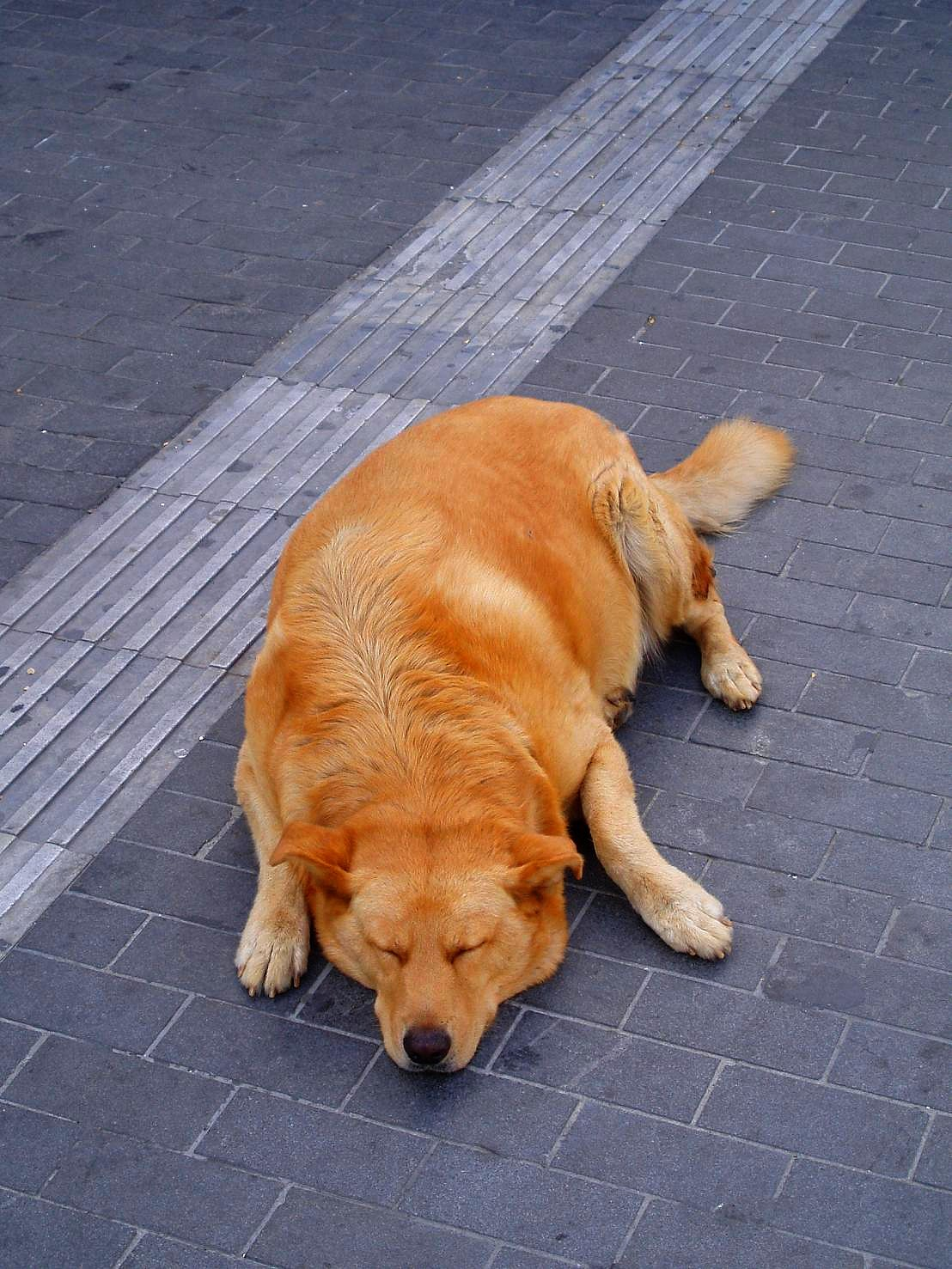 A dog resting in the Iraklion street, Greece